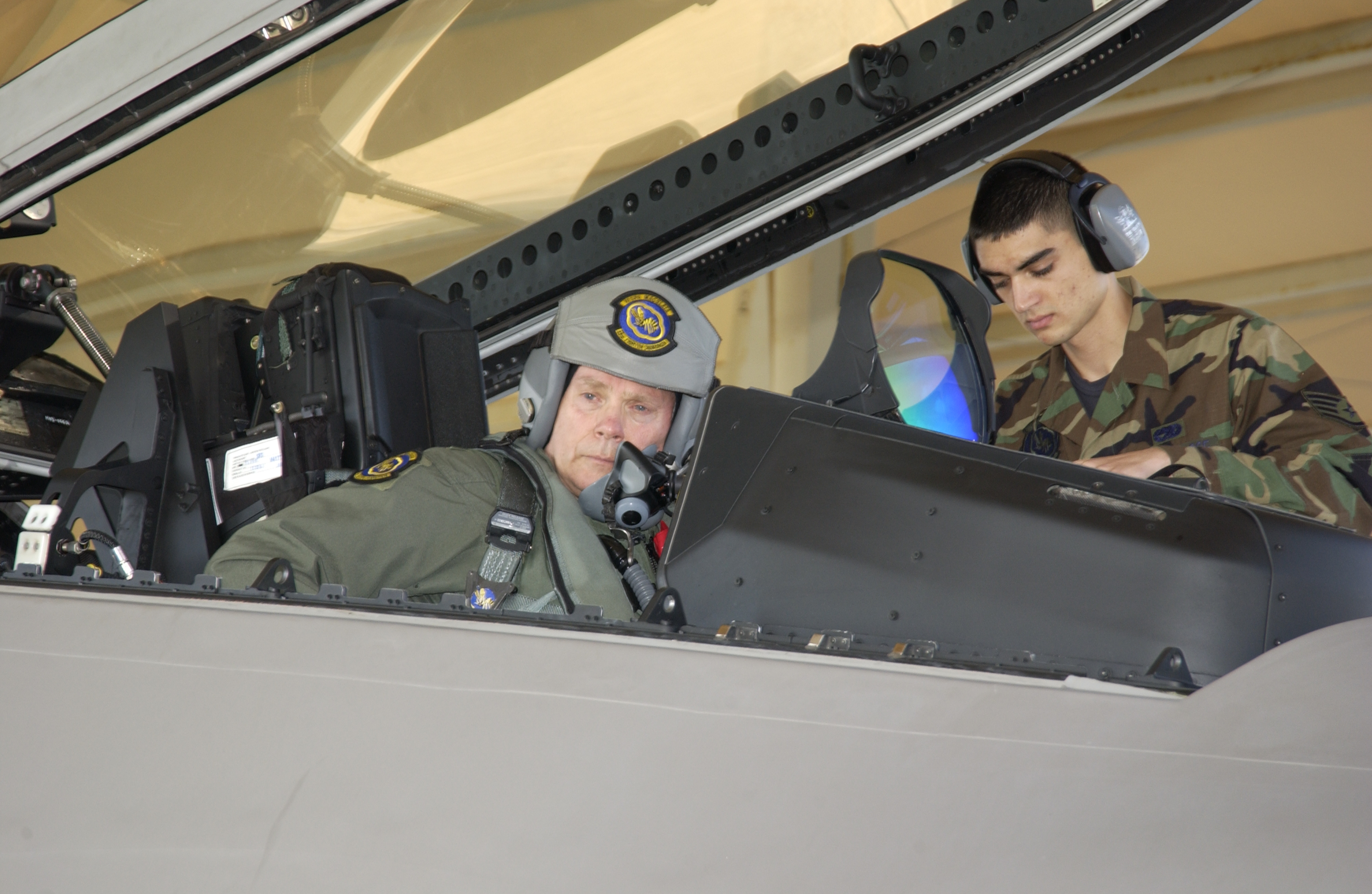 TYNDALL AIR FORCE BASE, Fla. -- Staff Sgt. Jonathon Tringali helps Air Force Chief of staff Gen. John P. Jumper prepare to fly in an F/A-22 Raptor here Jan. 12. The Raptor makes the ninth Air Force aircraft type the general has flown. (U.S. Air Force photo by Lisa Norman)